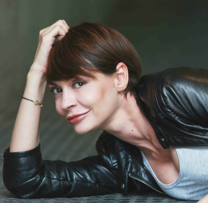 Photo of Samantha Michela Capitoni